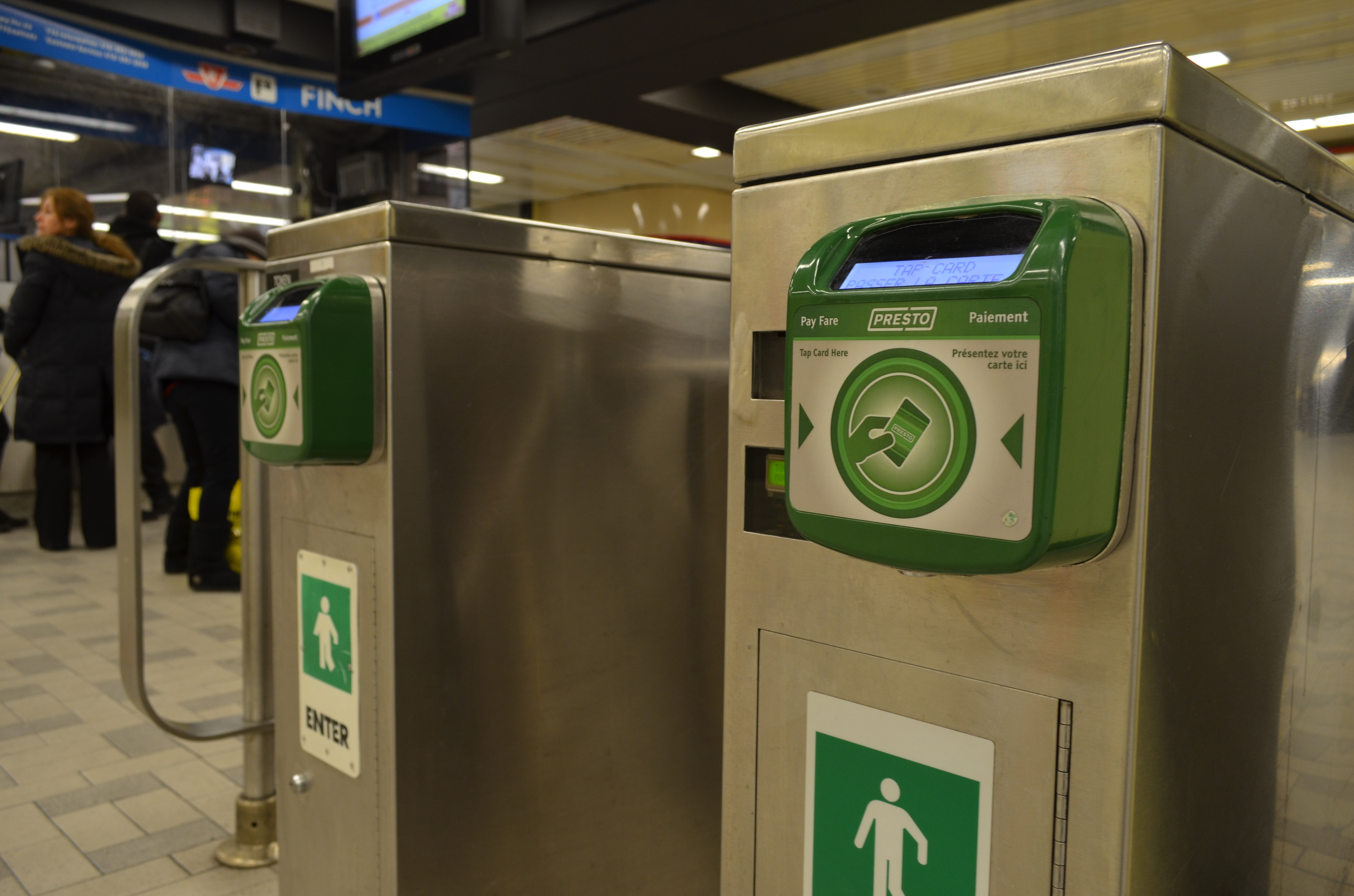 Presto card reader at Finch TTC station